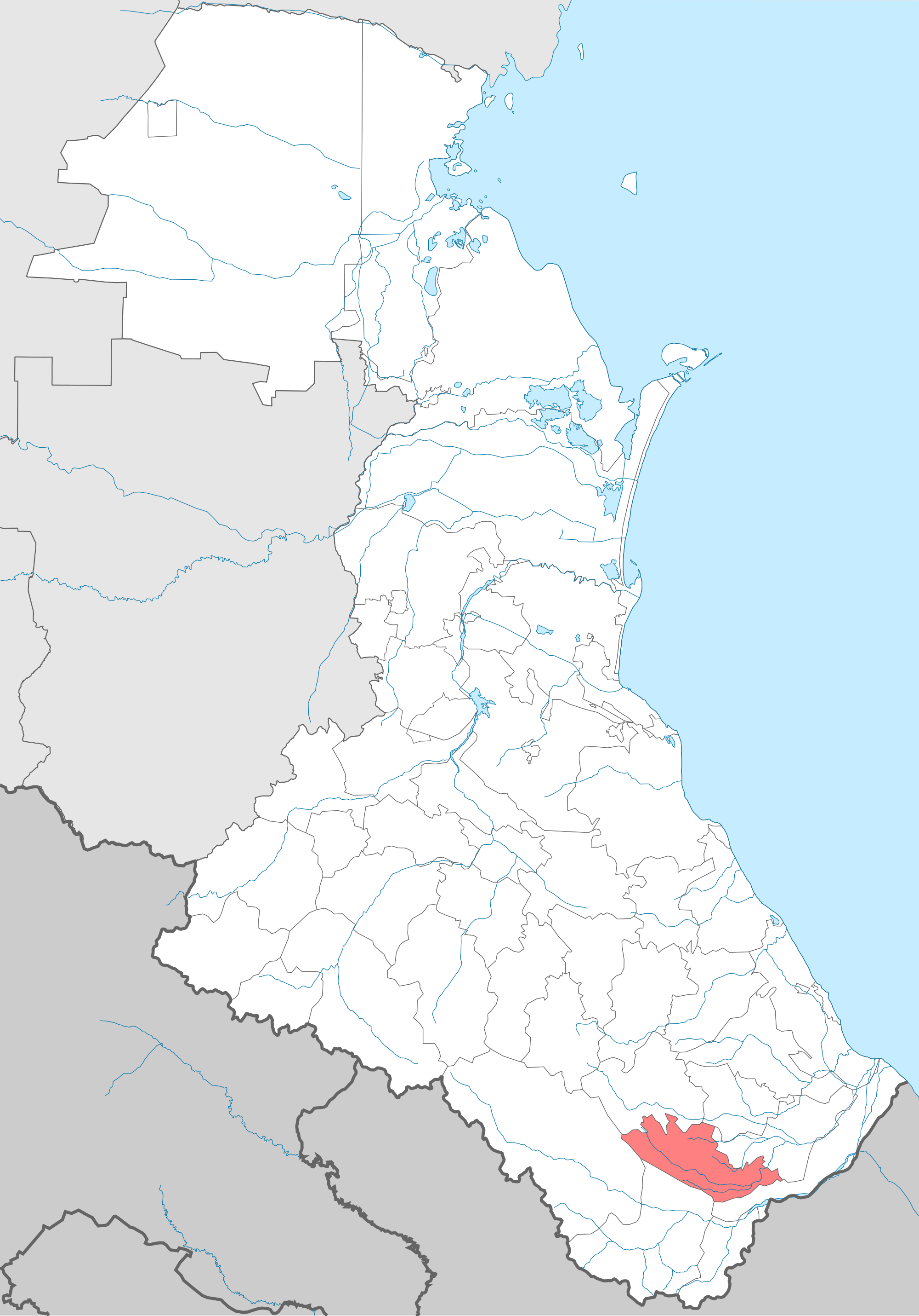 Kurakhsky district. Locator Map of Dagestan (Russia)